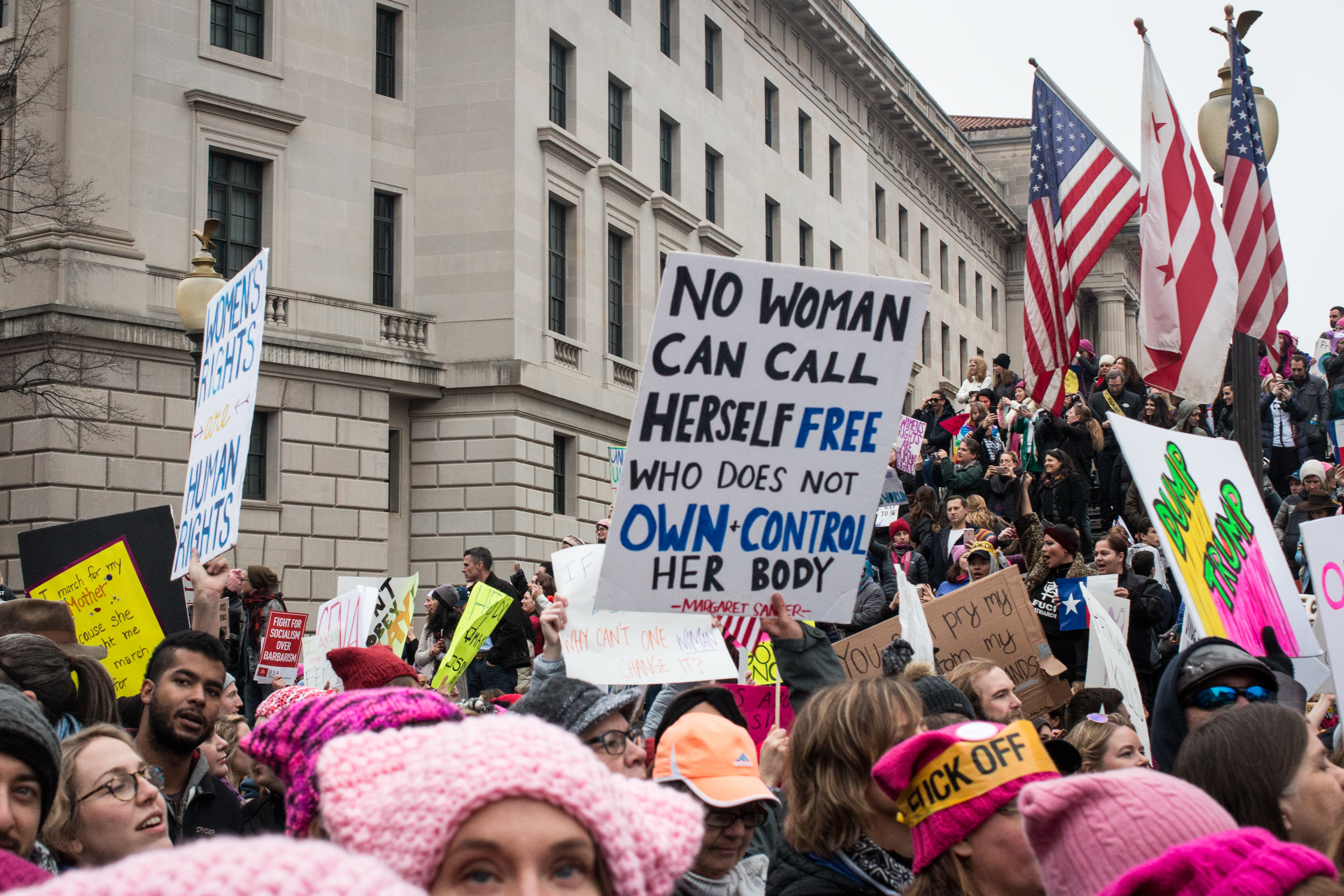 January 21, 2017